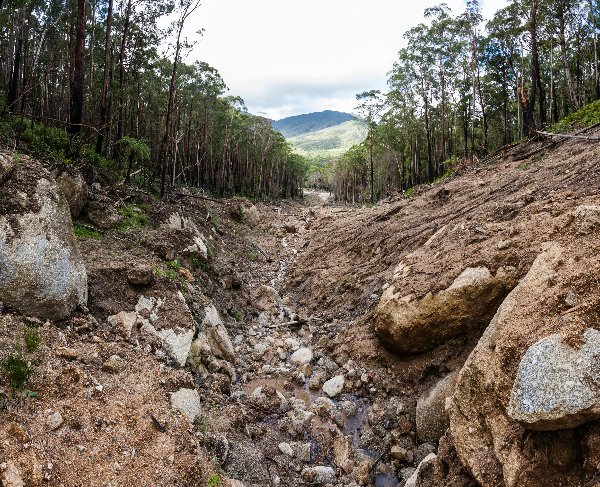 A view looking south towards Lilly Pilly Gully of the erosion damage caused by the March 2011 floods in Wilsons Promontory. The forest was completely stripped and a deep gully created, in which ~400mm of rain fell in a 24 hour period.